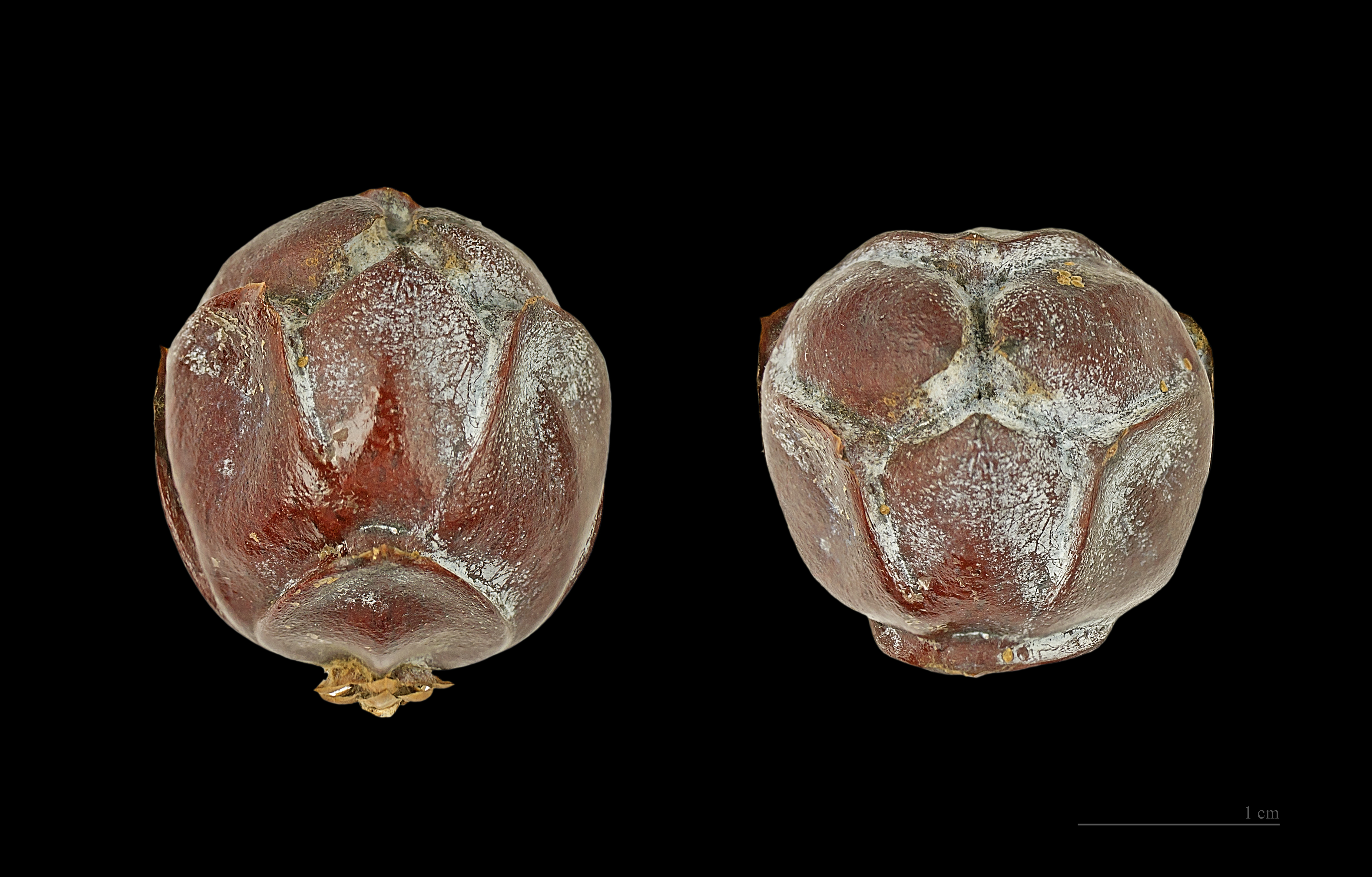 Cone of Syrian Juniper. Two views of same specimen.